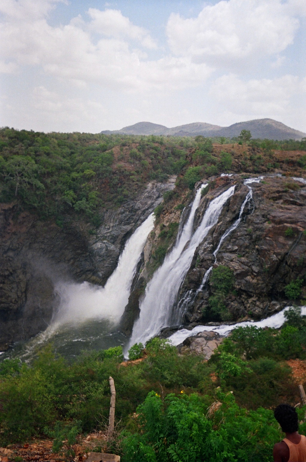 Shivana Samudra Falls on the Cauvery (Kaveri) River in Karnataka has a height of 320 ft. (98 meters), a width of 2784 feet, and a maximum recorded volume of 667,000 cubic feet / sec. It is claimed by some to be the 2nd largest waterfall in India, although I'm not sure by what measure. This picture, unfortunately, captures only part of the falls, and that during the drought of August 2003 during which the flow of the Kaveri was severely reduced.